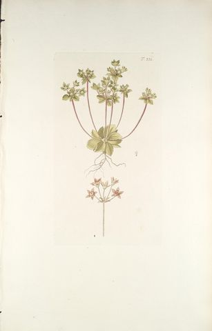 Leaves, grass-88-264 - Androsace maxima